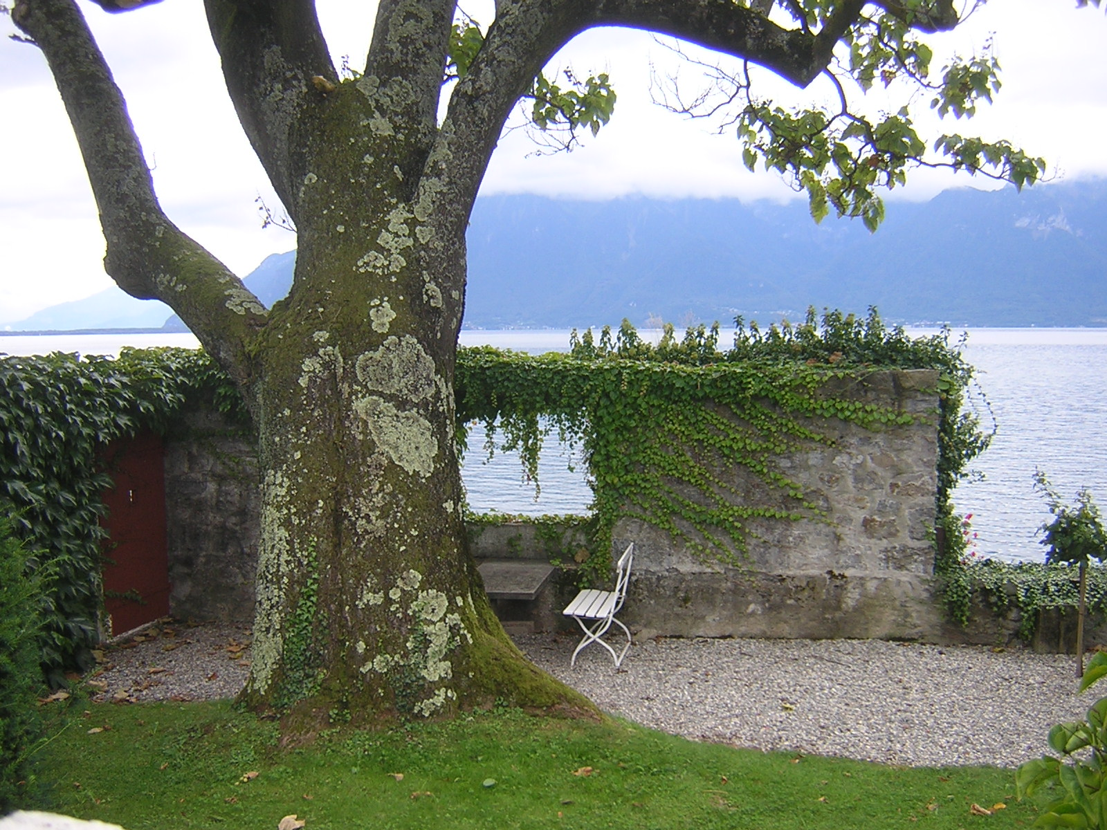 Villa"Le Lac" in Corseaux, Switzerland, called the "Petit Maison" by Le Corbusier for his relatives in 1923. This is a view from the garden towards the Lake.